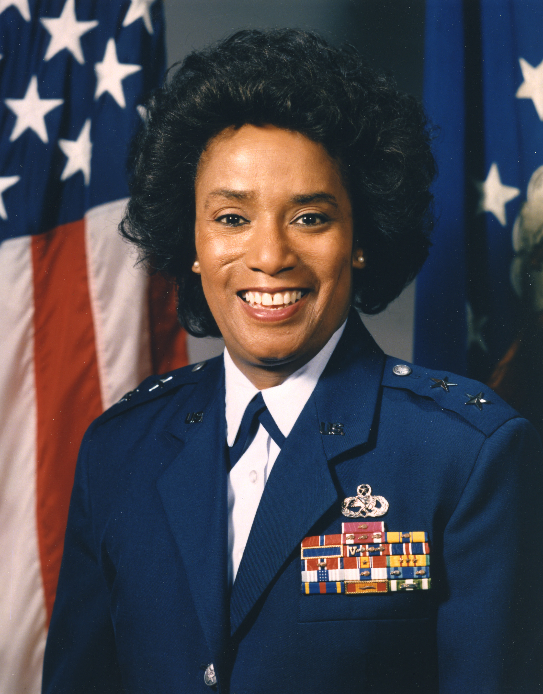 Major General Marcelite J. Harris, USAF (Ret)